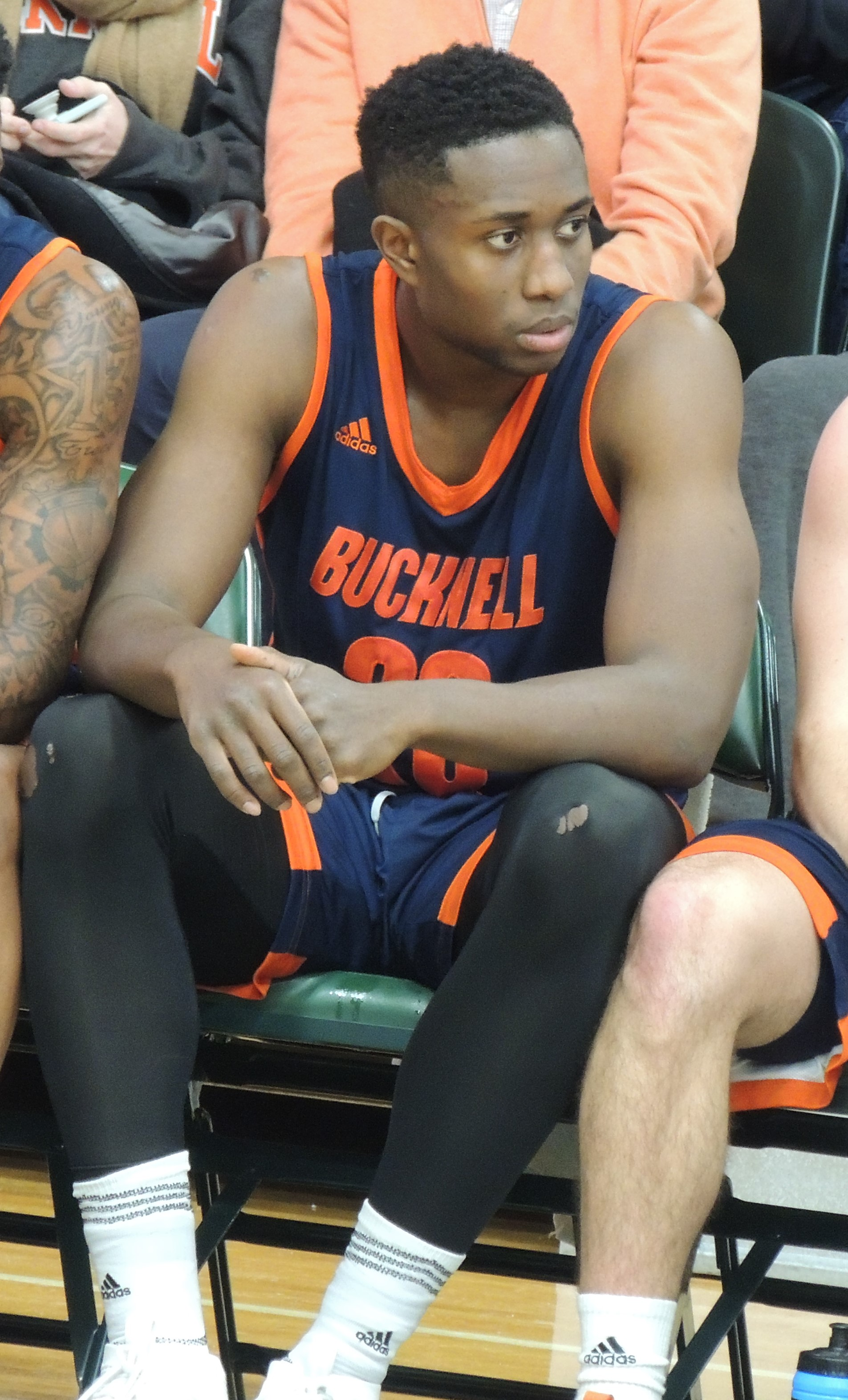 Bucknell center Nana Foulland on the bench of a January, 2018 game